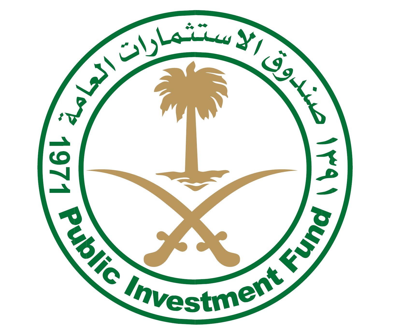 Logo of the Public Investment Fund of Saudi Arabia